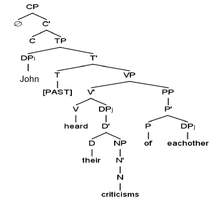 Demonstrates principle A of binding theory